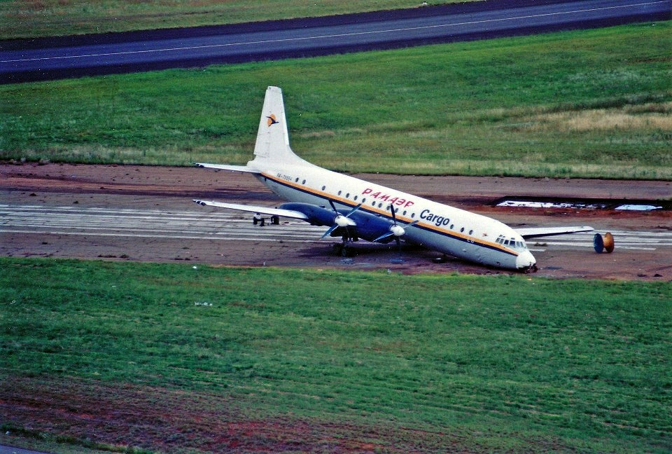 Photo P.Dubois